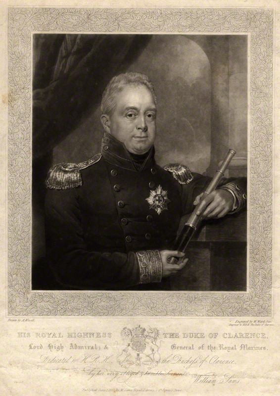 William IV of the United Kingdom (1765-1837; r. 1830-1837). At the time of this portrait he was styled "Duke of Clarence."